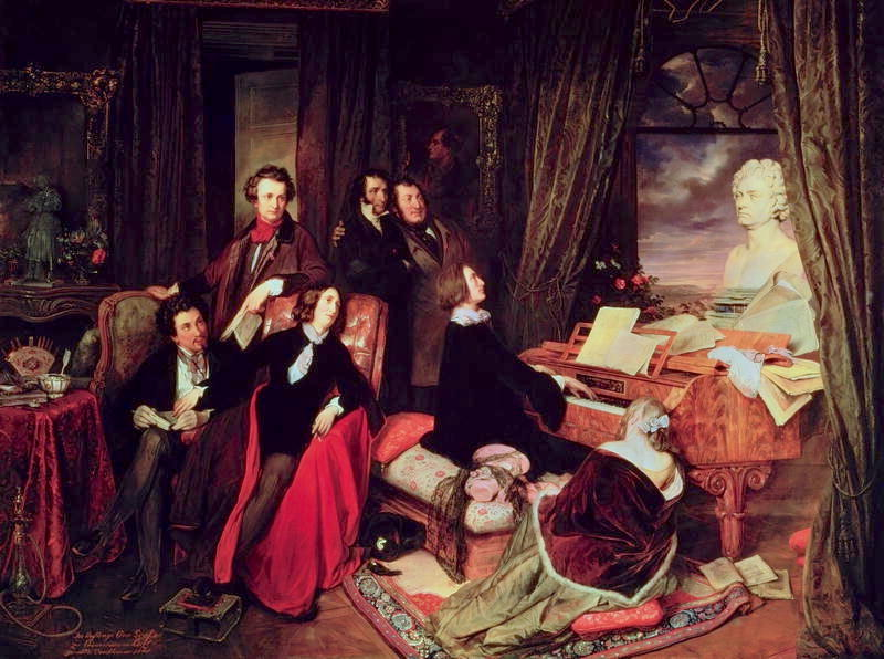 a painting of Franz Liszt playing in a Parisian salon a grand piano by Conrad Graf , who commissioned the painting; on the piano is a bust of Ludwig van Beethoven by Anton Dietrich; the imagined gathering shows seated Alexandre Dumas (père), George Sand, Franz Liszt, Marie d'Agoult; standing Hector Berlioz or Victor Hugo, Niccolò Paganini, Gioachino Rossini; a portrait of Byron on the wall and a statue of Joan of Arc on the far left.Current location: Staatliche Museen zu Berlin – Stiftung Preußischer Kulturbesitz, Alte Nationalgalerie F.V. 42[1][2][3]